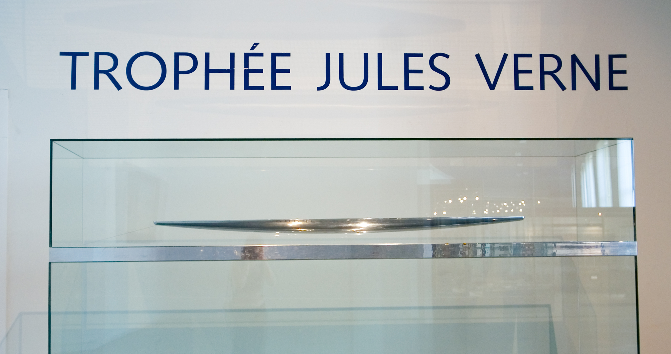 Jules Verne Trophy, Created by Tom Shannon, National Maritime Museum, Paris.